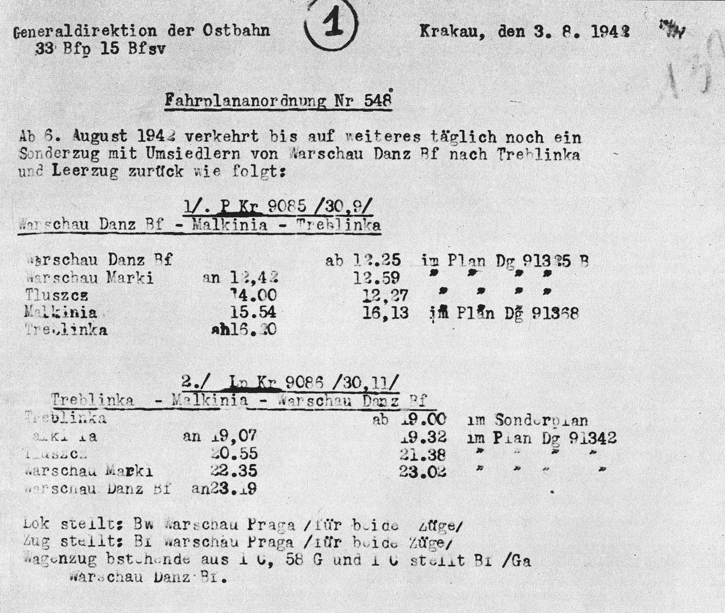 Timetable no 548 of Generaldirektion der Ostbahn in Kraków dated 3 August 1942 concerning a special train from Warszawa Gdańska station to Treblinka from 6 August 1942 onwards